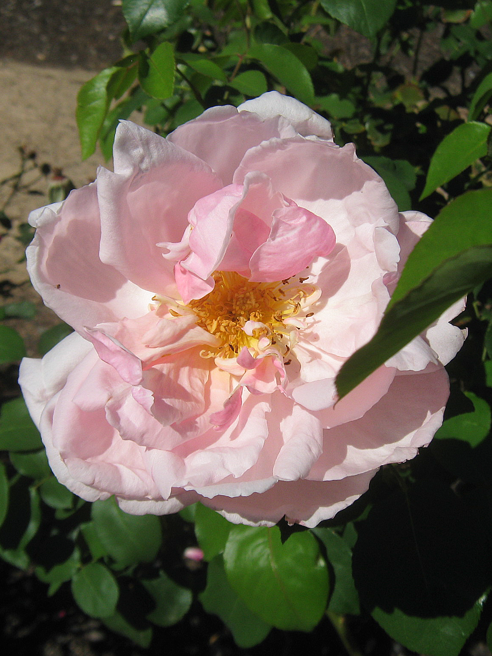 Rose 'Mrs Henry Morse' McGredy 1919 hybrid tea